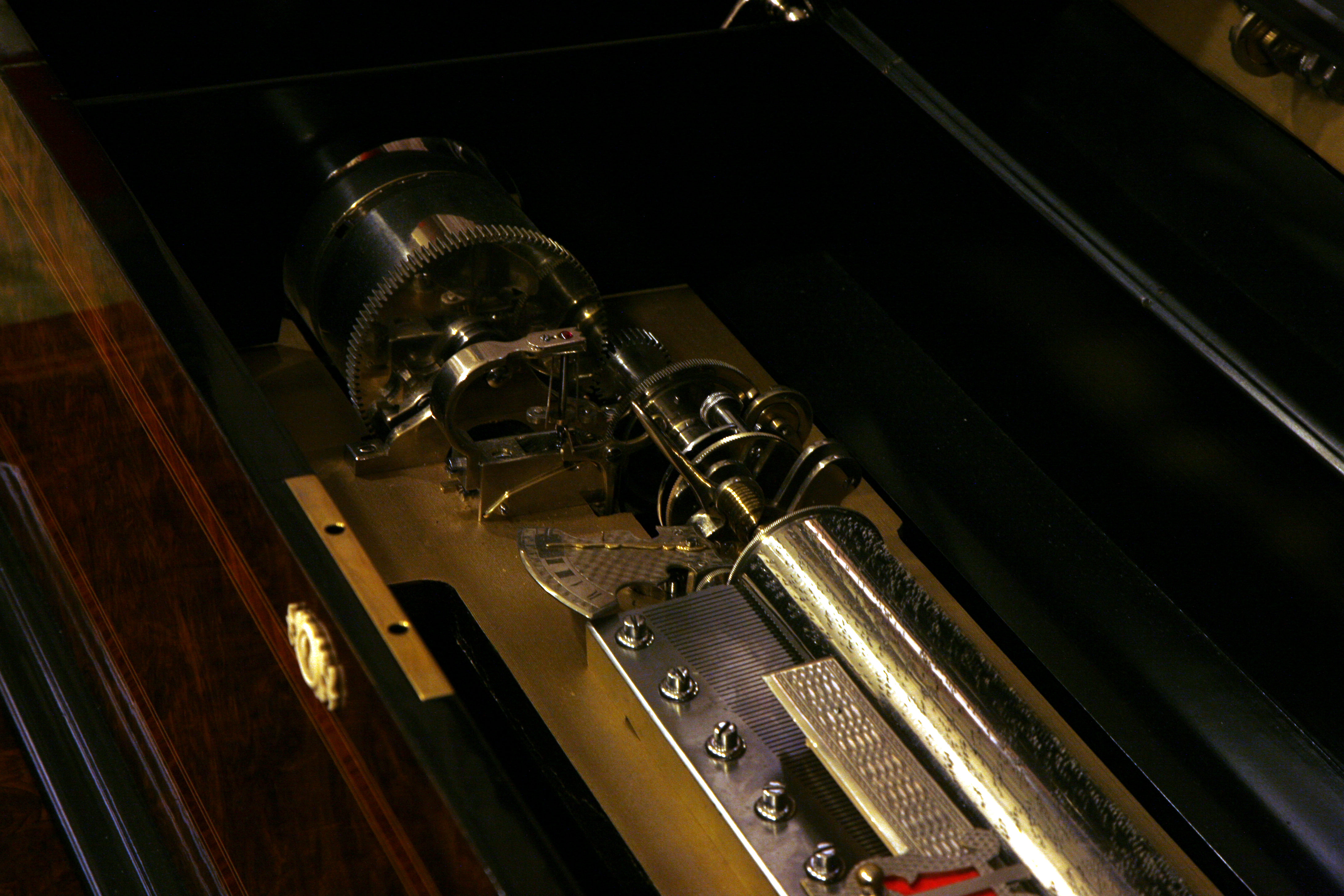 Musée Baud